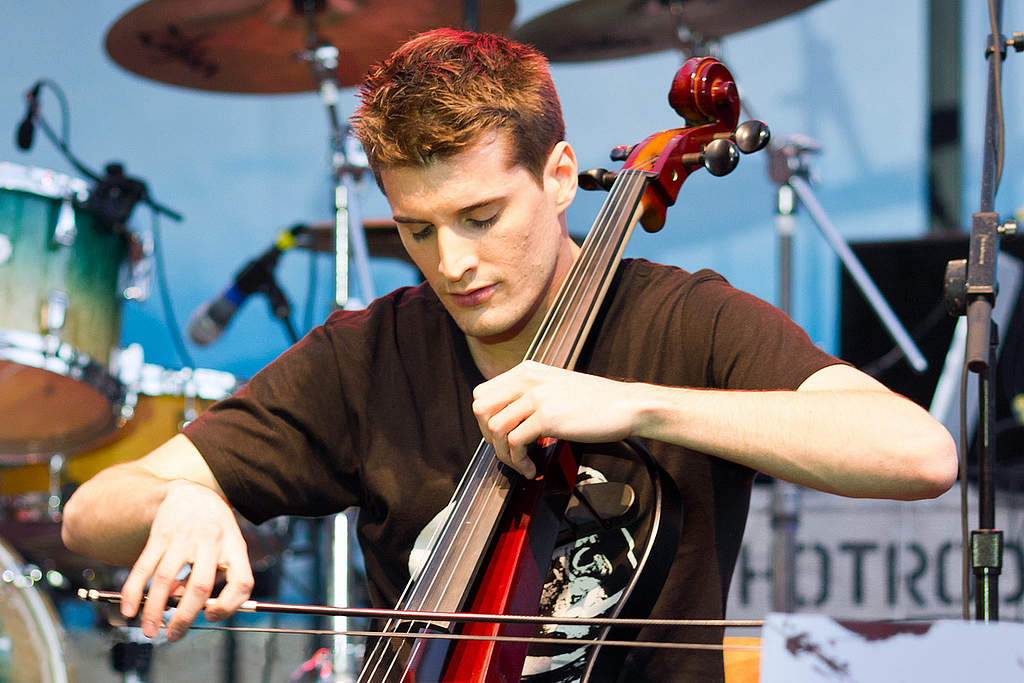 Luka Šulić at the shopping community Americana At Brand of Glendale, California (United States - August, 4th 2011)